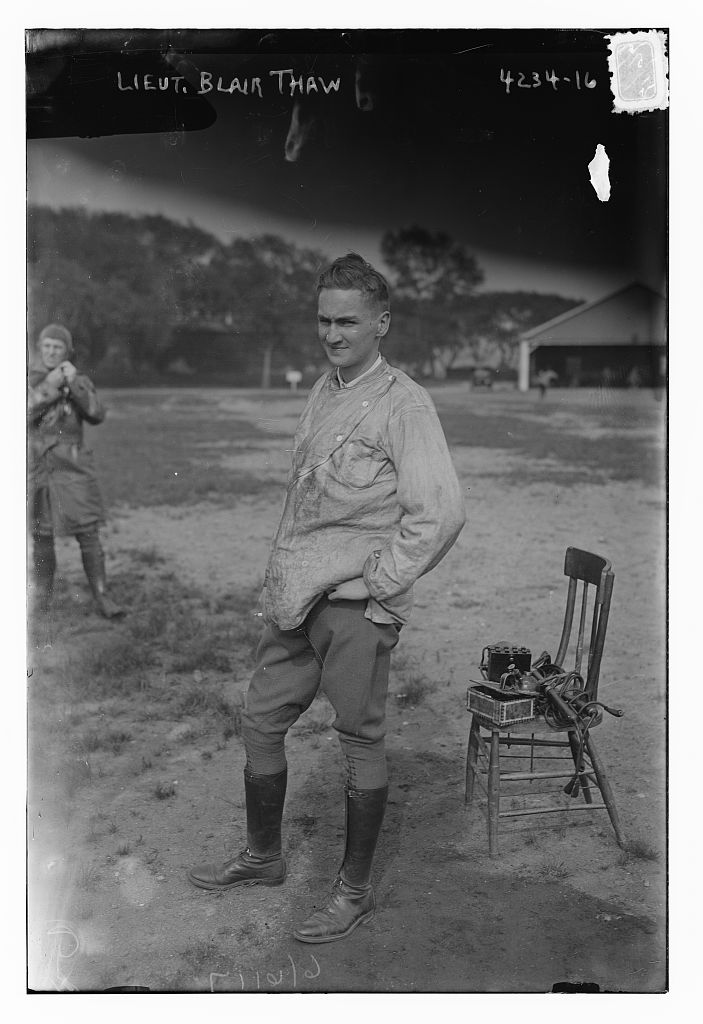 Bain News Service,, publisher. Lieut. Blair Thaw [between ca. 1915 and ca. 1920] 1 negative : glass ; 5 x 7 in. or smaller. Notes: Title from data provided by the Bain News Service on the negative. Forms part of: George Grantham Bain Collection (Library of Congress). Format: Glass negatives. Repository: Library of Congress, Prints and Photographs Division, Washington, D.C. 20540 USA, General information about the Bain Collection is available at Higher resolution image is available (Persistent URL): Call Number: LC-B2- 4234-16